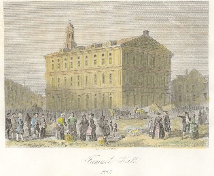 View of Faneuil Hall, 1830